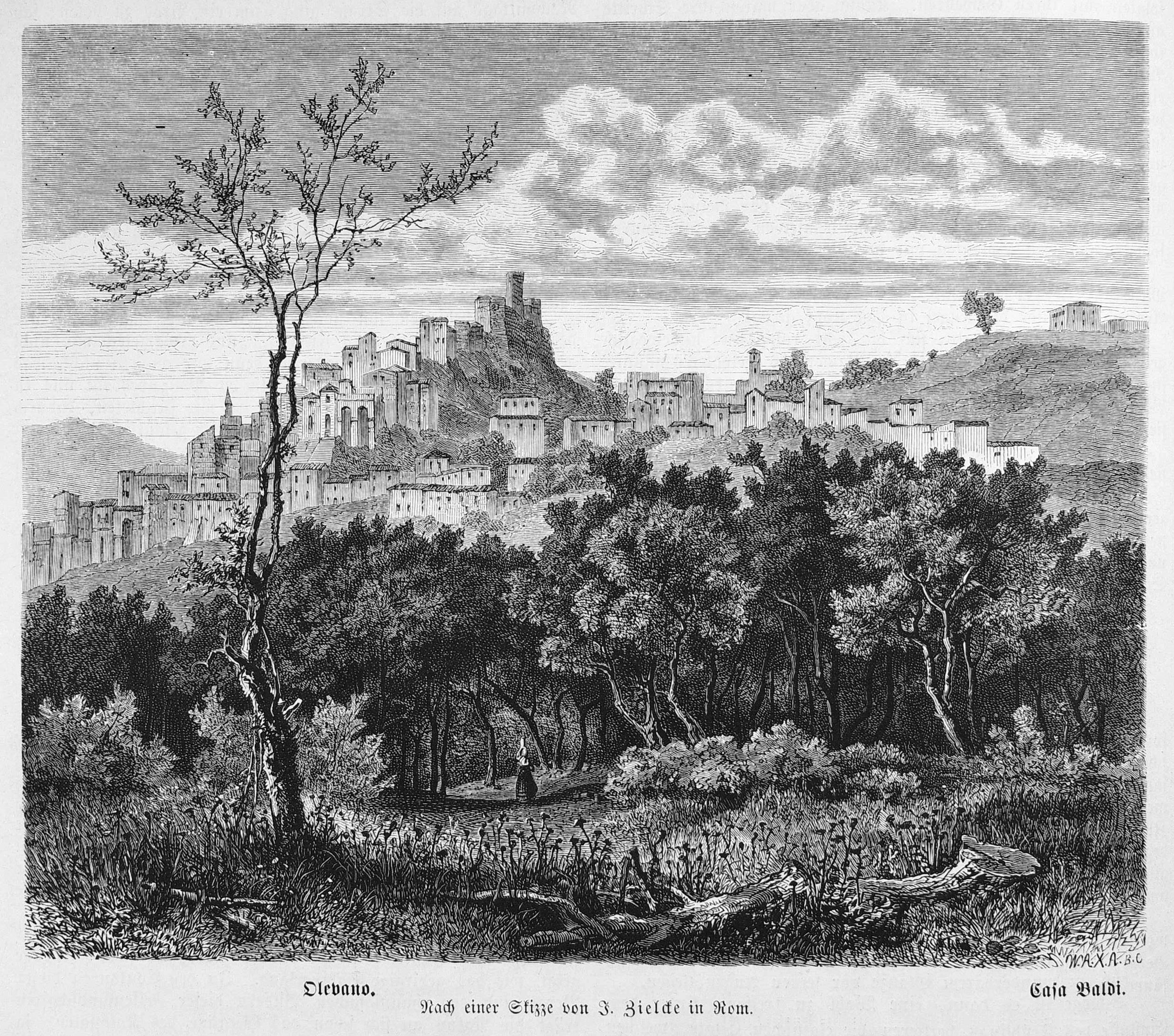 caption: "Olevano. Casa Baldi. Nach einer Skizze von J. Zielcke in Rom."